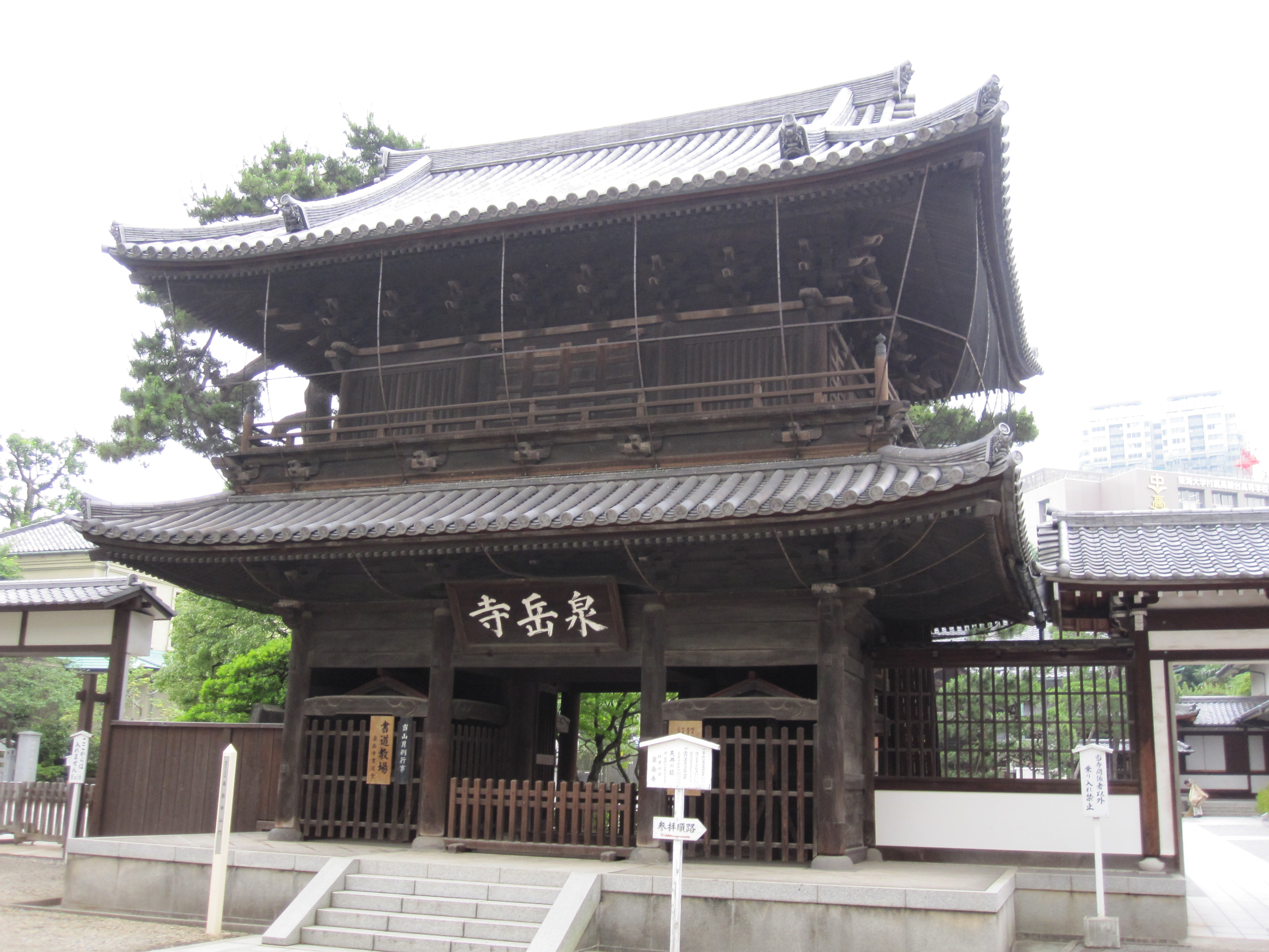 Sanmon gate of Sengaku-ji temple